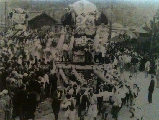 Niihama Taiko Festival at 1955